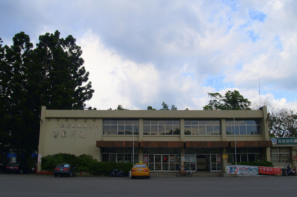 Alishan Forest Railway Peimen Station.